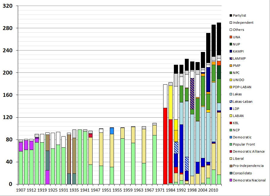 Party control of the House of Representatives of the Philippines by seat totals.